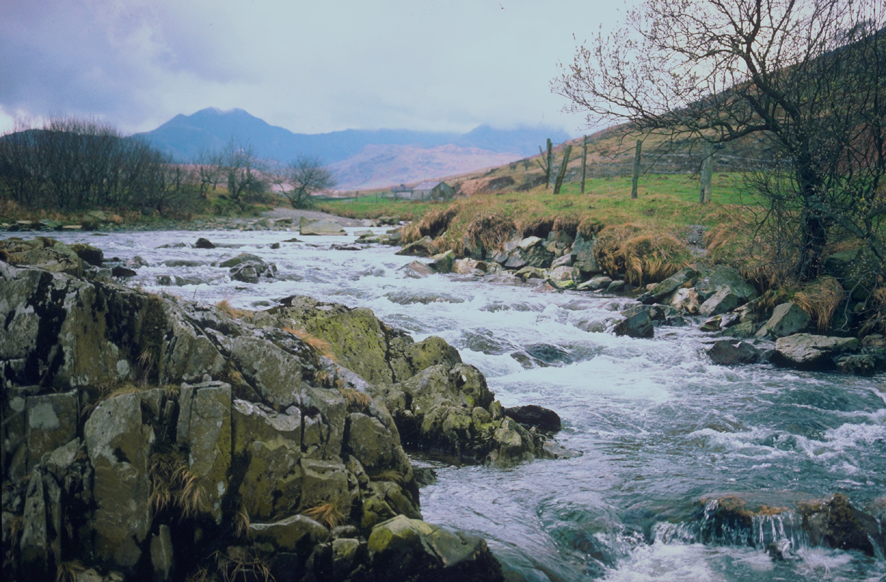 Snowdon horseshoe from Capel Curig in North Wales